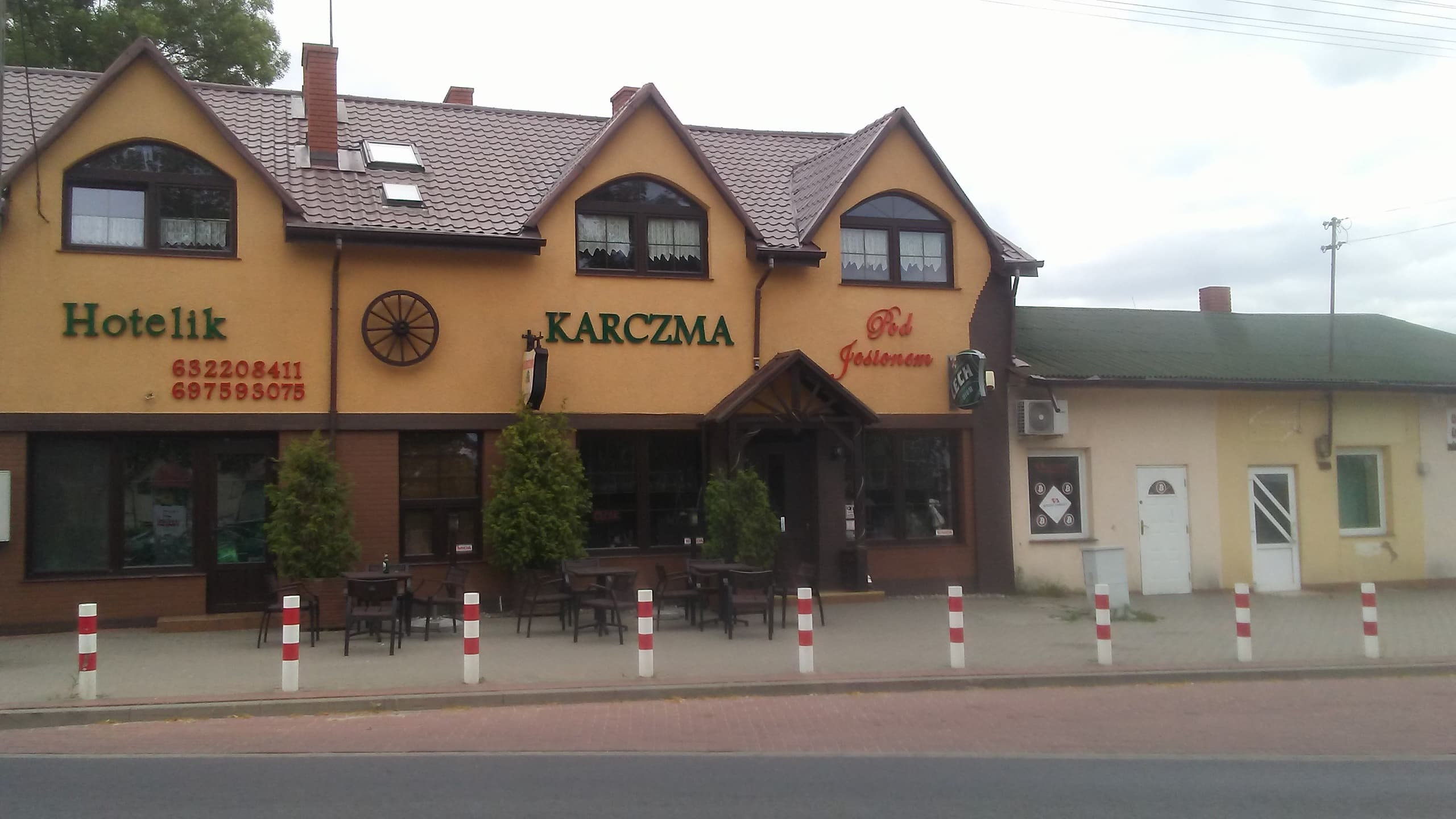 Brdów, Poland